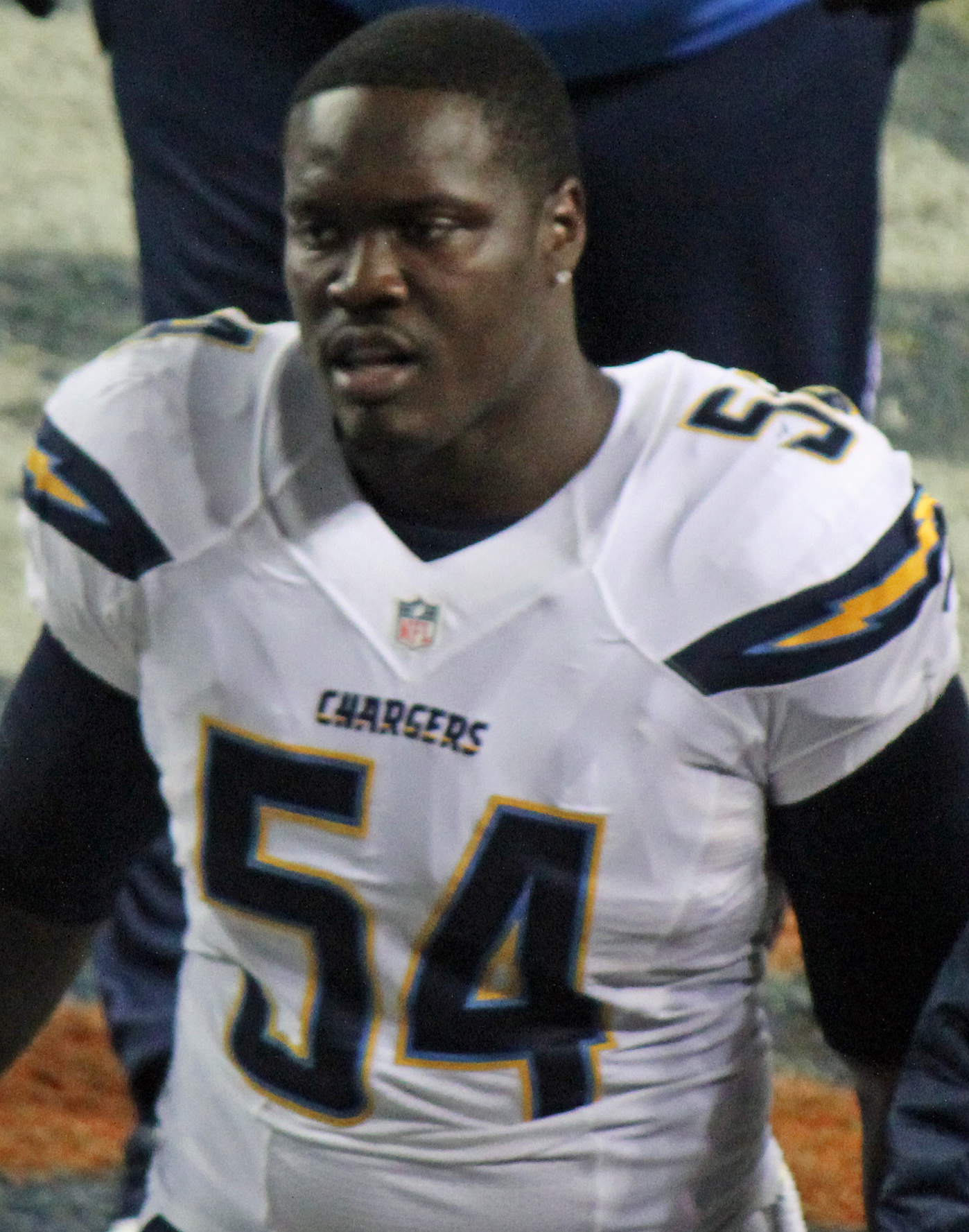 Melvin Ingram, a player on the National Football League.